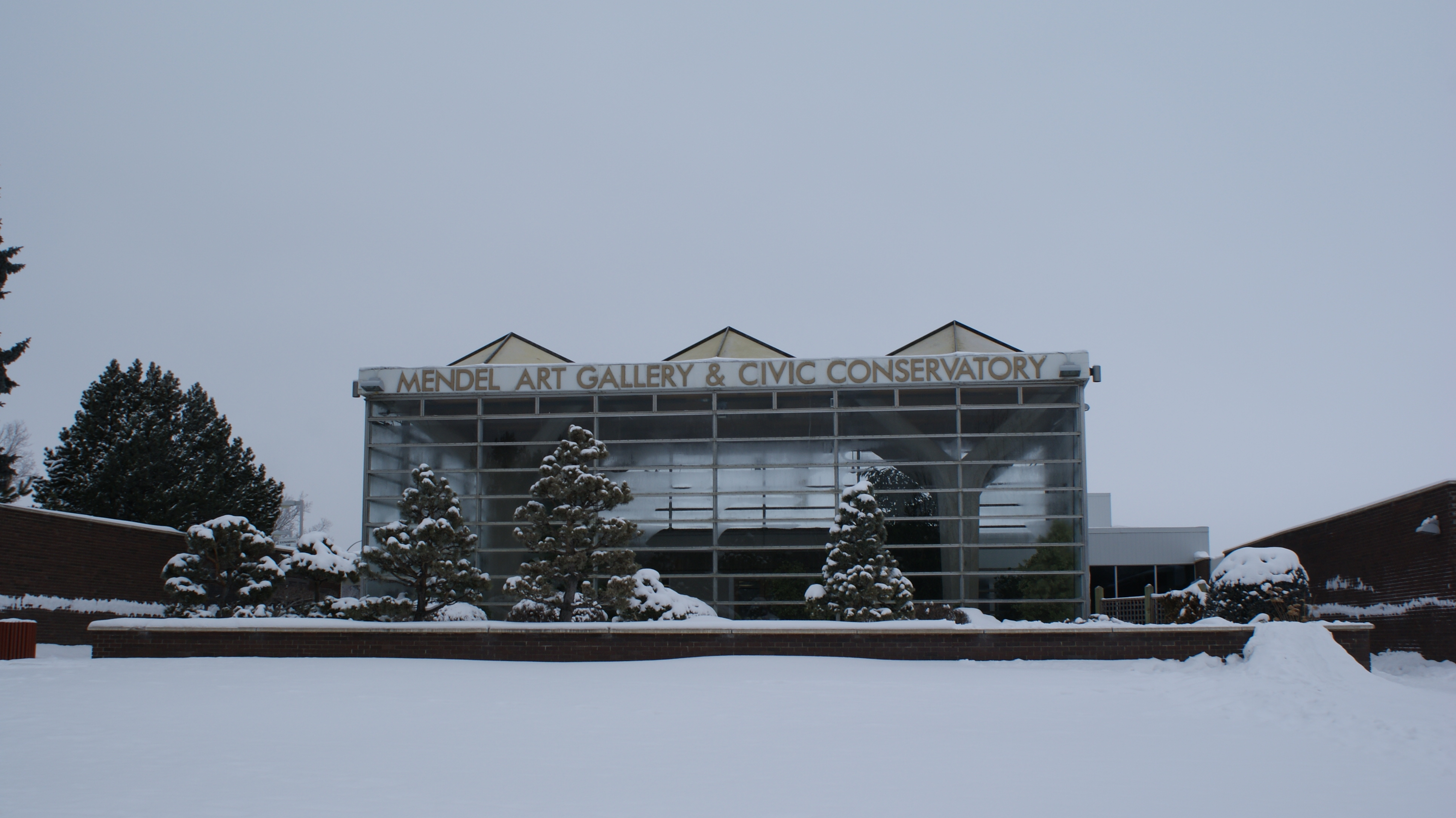 Wikipedia:Mendel Art Gallery and Civic Conservatory, City Park , Core Neighbourhoods SDA, Saskatoon, Saskatchewan, Canada